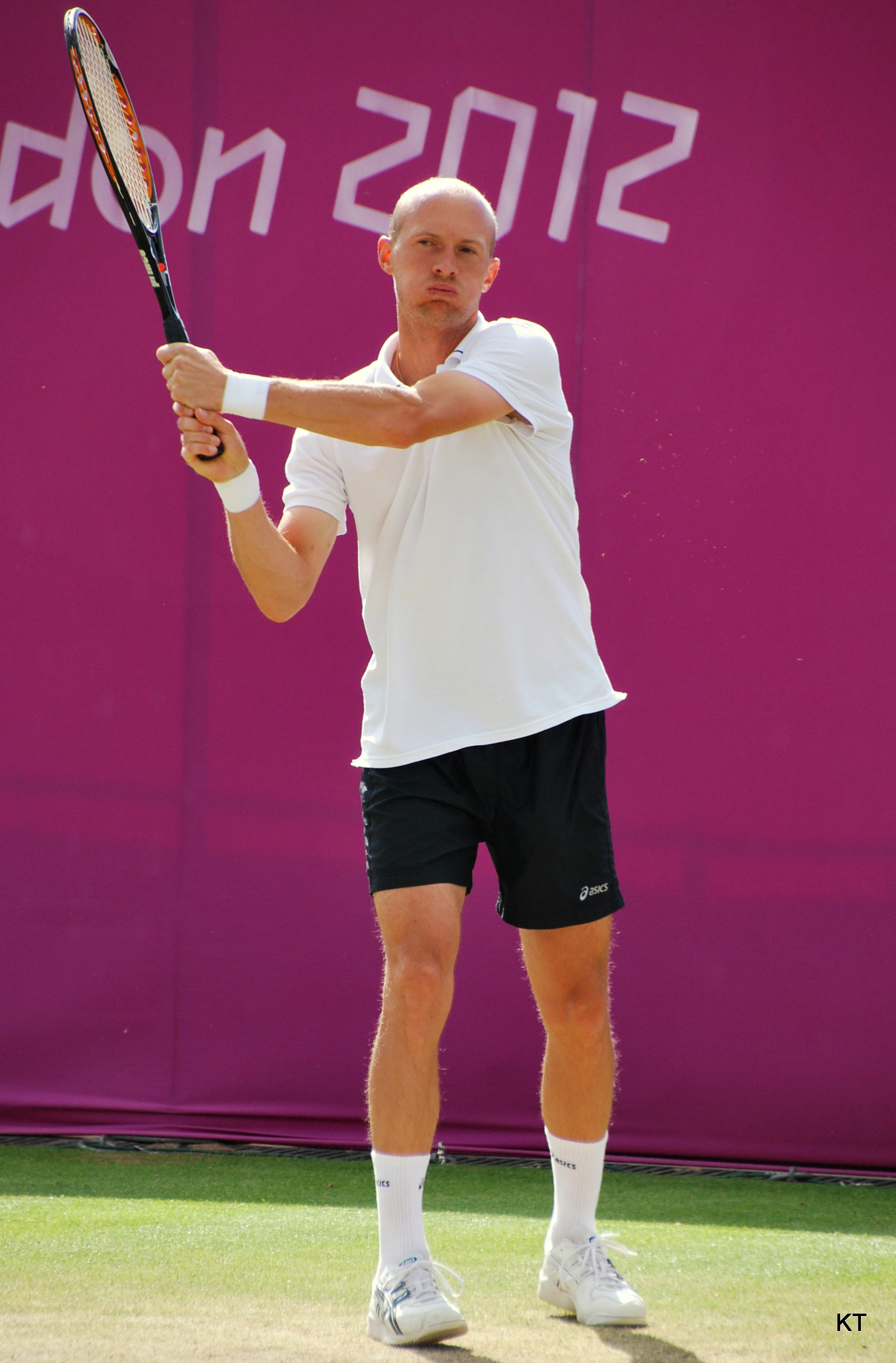 Hitting a backhand in pratice.